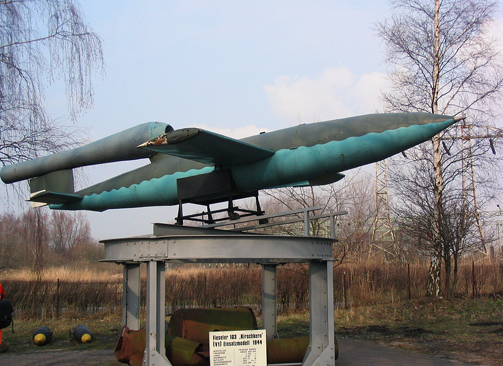 Peenemünde Historical and Technical Information Centre: model of the V1 - coat of paint of 1944 version